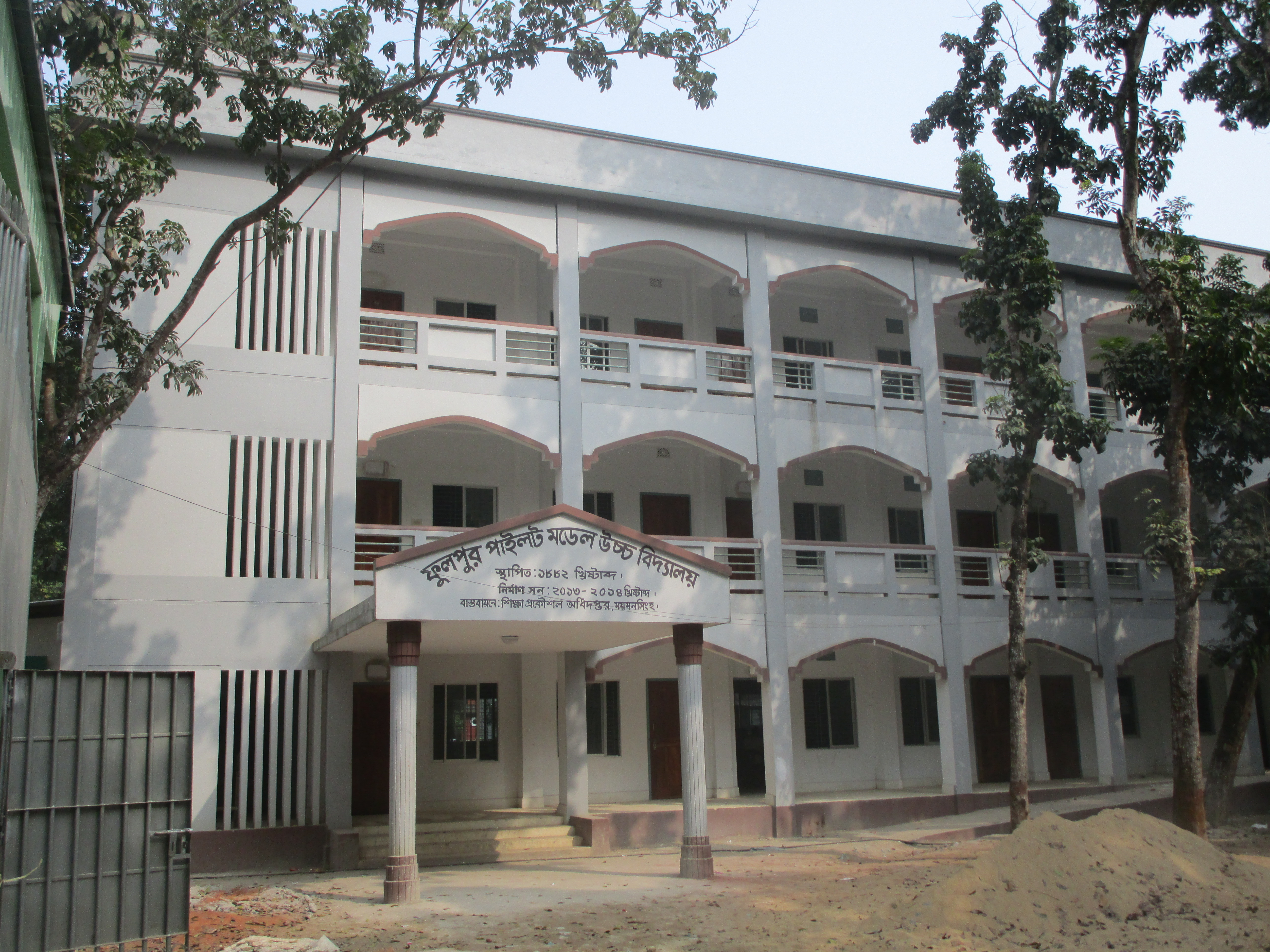 Phulpur pilot high school building at Phulpur, Mymensingh